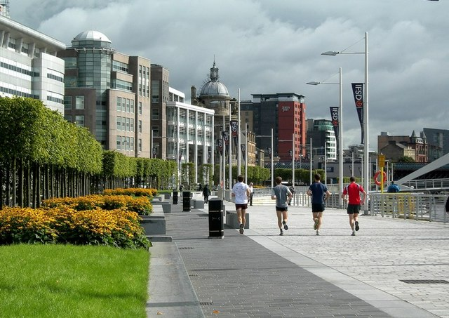 Jogging Along Four young men taking some exercise on the Clyde Walkway at Broomielaw in central Glasgow.